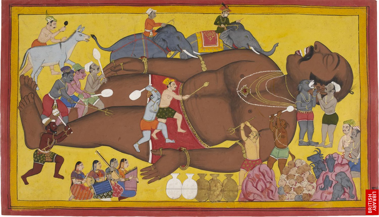 The demons try to rouse Ravanas' brother, the giant Kumbhakarna, by hitting him with weapons and clubs and shouting in his ear